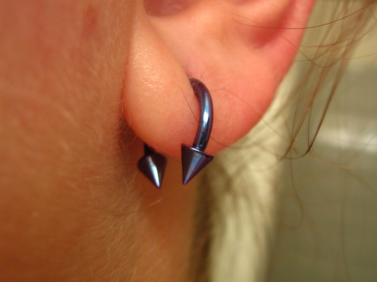 earring